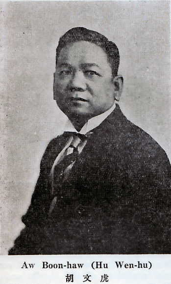 Aw Boon Haw (Hu Wenhu; Ho Wen-hu) (1882 - 1954)